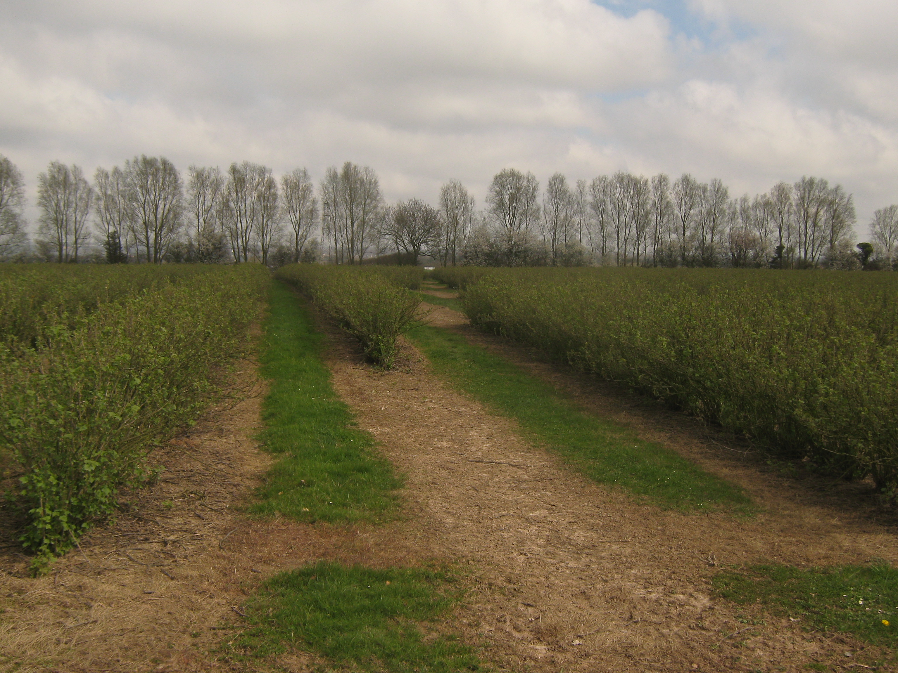 Bridleway to Merton Farm This bridleway turns north from the track from Iffin Lane, leading through a field of redcurrant bushes.